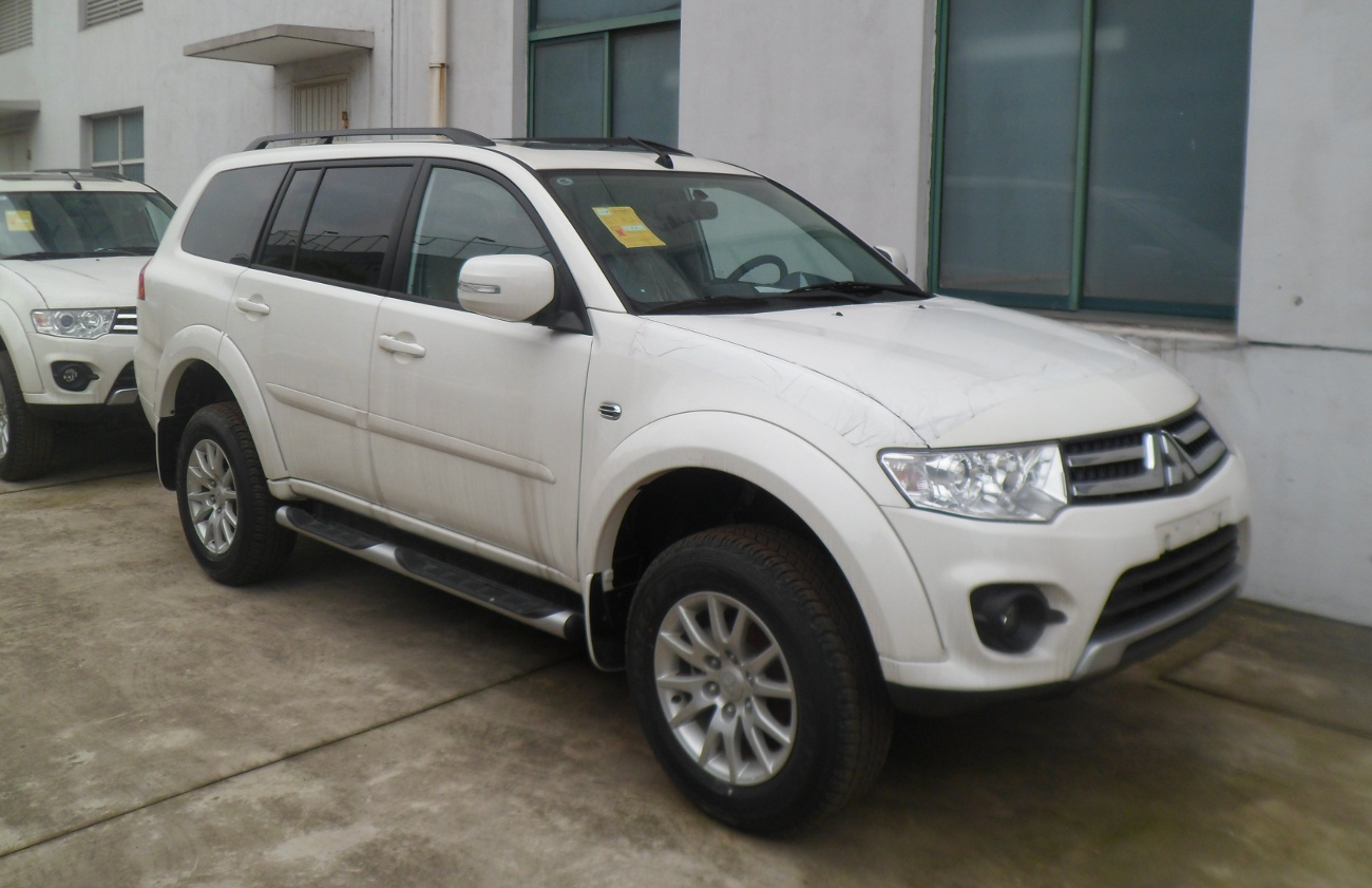 Mitsubishi Pajero Sport II photographed in Anting, Shanghai municipality, China.